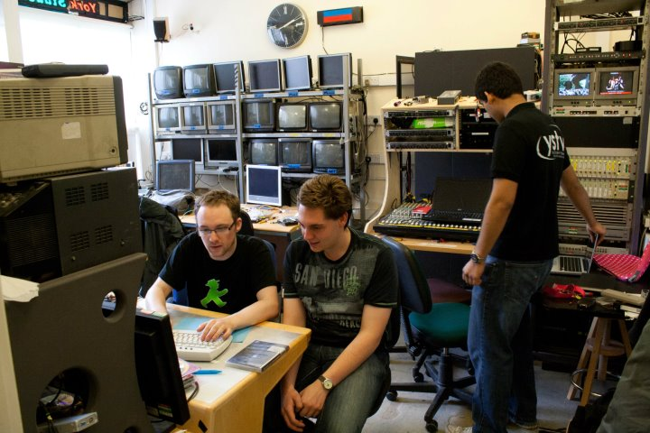 Control Room Life in YSTV